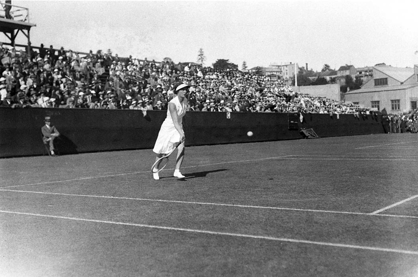 Australian tennis player Louie Bickerton at White City Stadium in Sydney, Australia